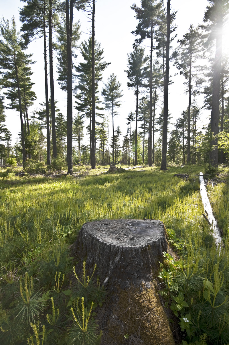 A white pine shelterwood establishment cut at the University of Maine's Dwight B. Demeritt research and demonstration forest